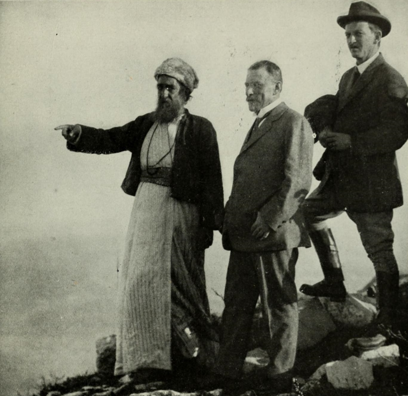 Ambassador Morgenthau in Palestine